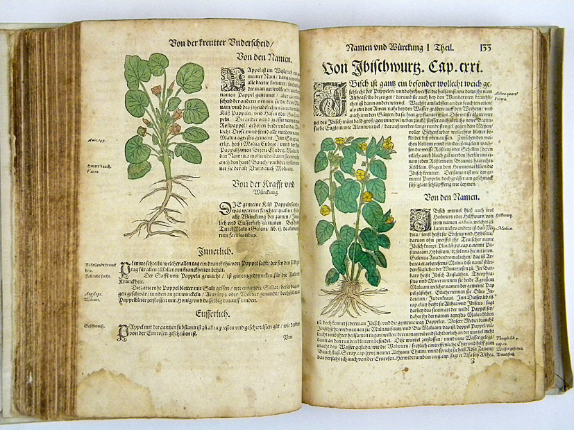 Original edition of the Kreutterbuch (Herbal book) by Hieronymus Bock, published by Johan Rihel in Strasbourg, 1577 or 1580. This work is the first or second edited and extended edition by M. Sebezius with the well known woodcuts, more than 570 old coloured illustrations of plants and figures complete this book. Many initials decorate the text; there furthermore exists a bbok plate by Harry Schraemli.